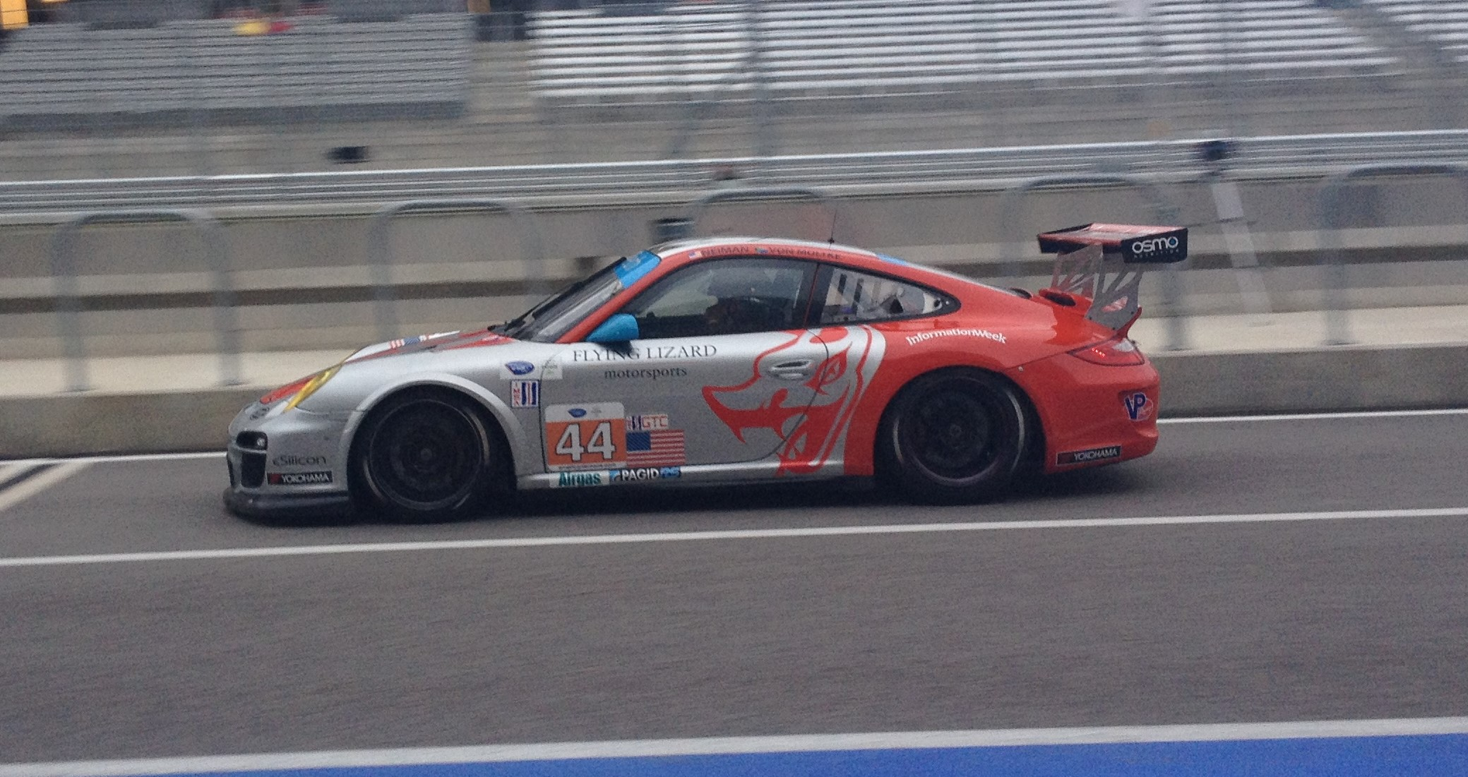 Dion von Moltke and the Flying Lizard Motorsports Porsche at Circuit of the Americas in 2013